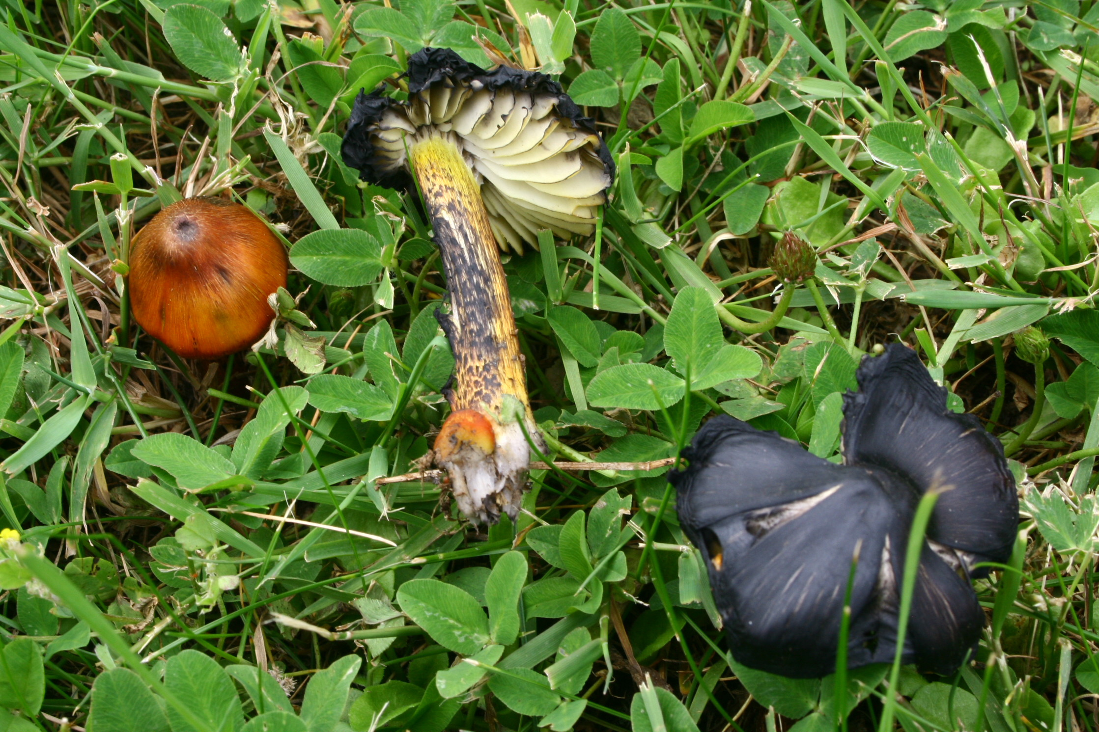 Hygrocybe conica on a lawn with trees in Nozay, near Paris, France